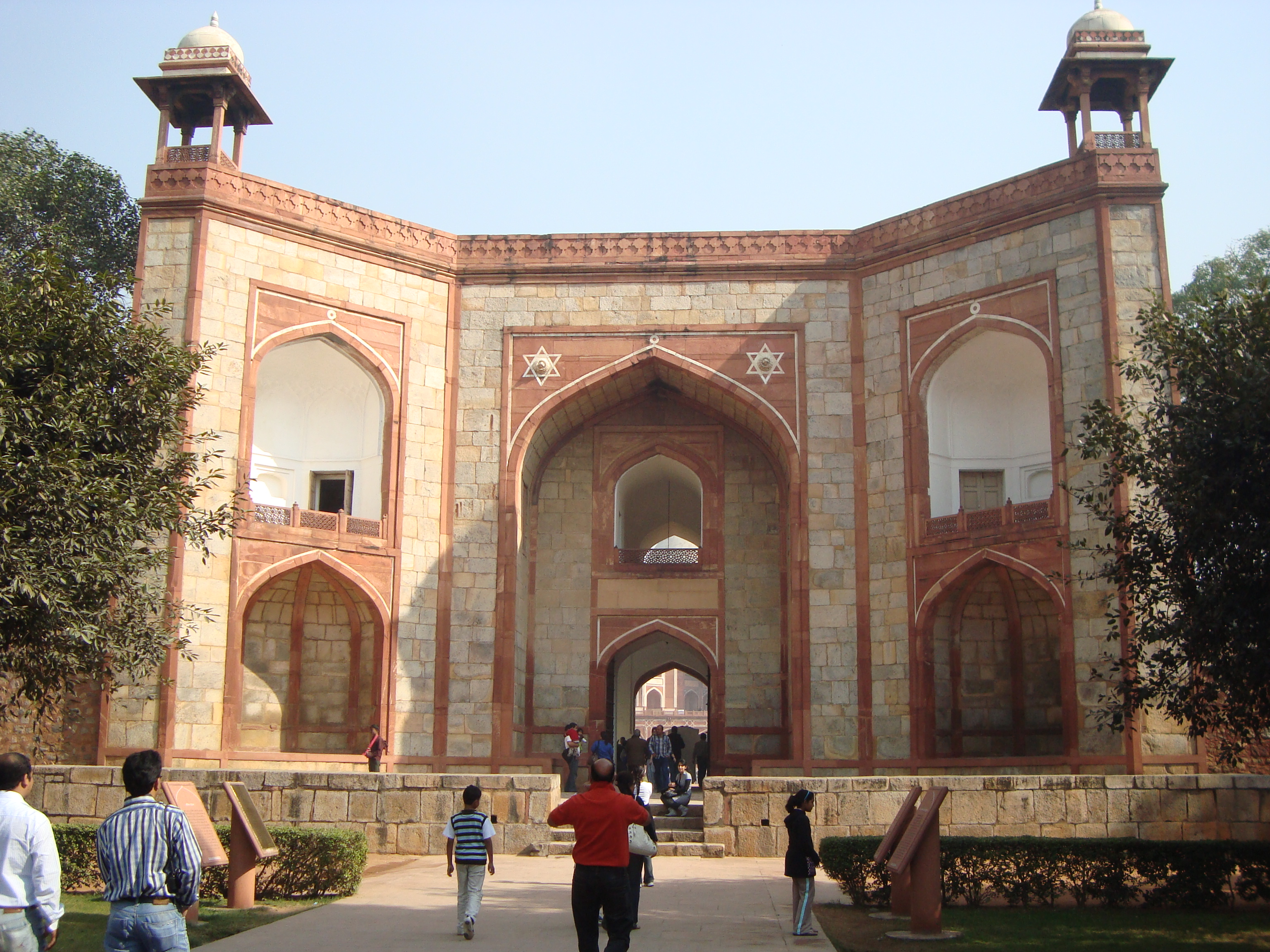 West Gate of Humayun's Tomb, New Delhi, India.